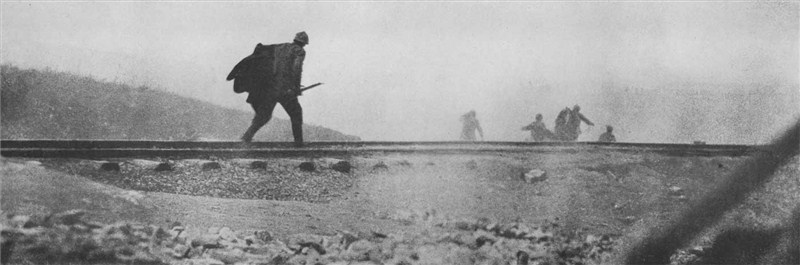 French soldiers on the attack, during the First world war